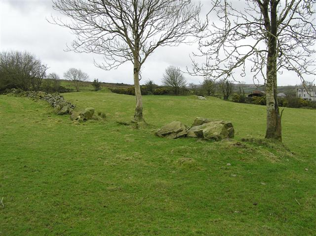 Aghalunny Townland. Looking to the south-west.